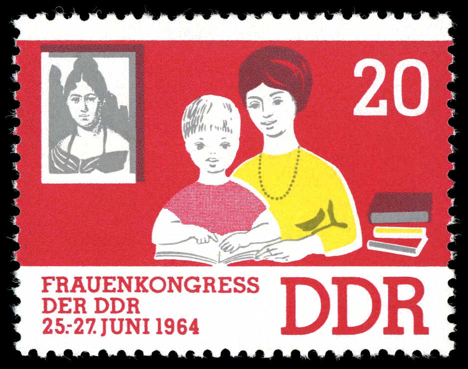 Ausgabepreis: 20 Pfennig First Day of Issue / Erstausgabetag: 25. Juni 1964 Auflage: 6.000.000 Entwurf: Böhme Druckverfahren: Offsetdruck Michel-Katalog-Nr: Ländercode-MiNr: 1030 Licensing This file is most likely NOT in the public domain. It has been marked for review, and will be deleted in due course if the review does not find it to be in the public domain.This file was previously considered to be in the public domain as a German stamp; it is possible that it is in the public domain for other reasons, in which case a new rationale will be applied as part of the review process. See below for the previous rationale. Previous public domain rationale, no longer applicable This stamp is in the public domain in Germany because it was released by the postal administration of the German Democratic Republic or the Soviet occupation zone (Deutschen Post der DDR) whose legal successor is the Federal Republic of Germany. Thus it is an official work according to German copyright law (§ 5 Abs. 1 UrhG).